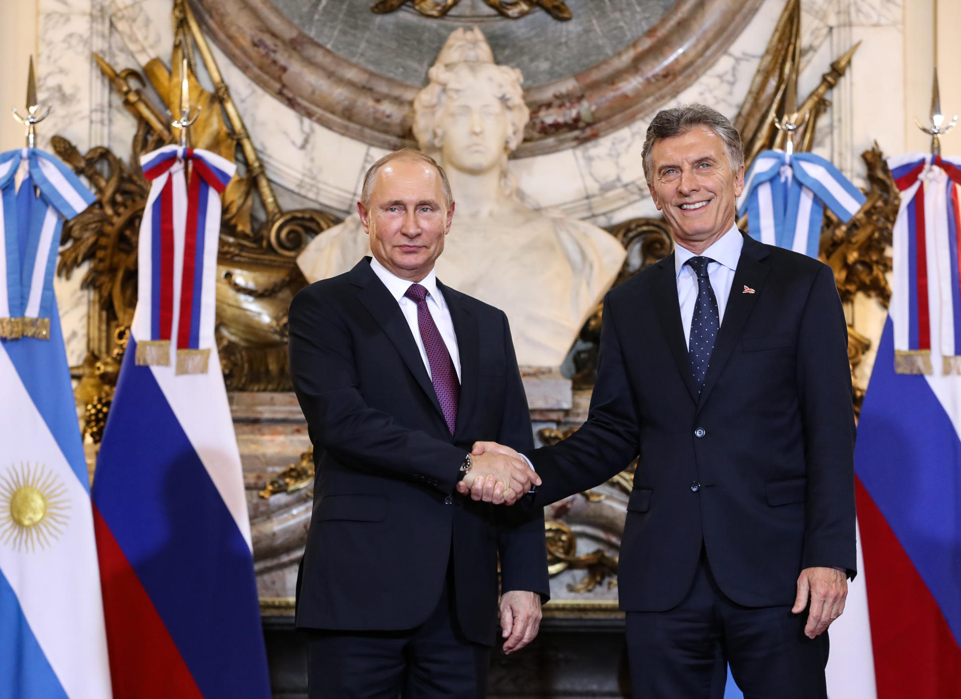 President of Argentina, Mauricio Macri, shaking hands with Vladimir Putin